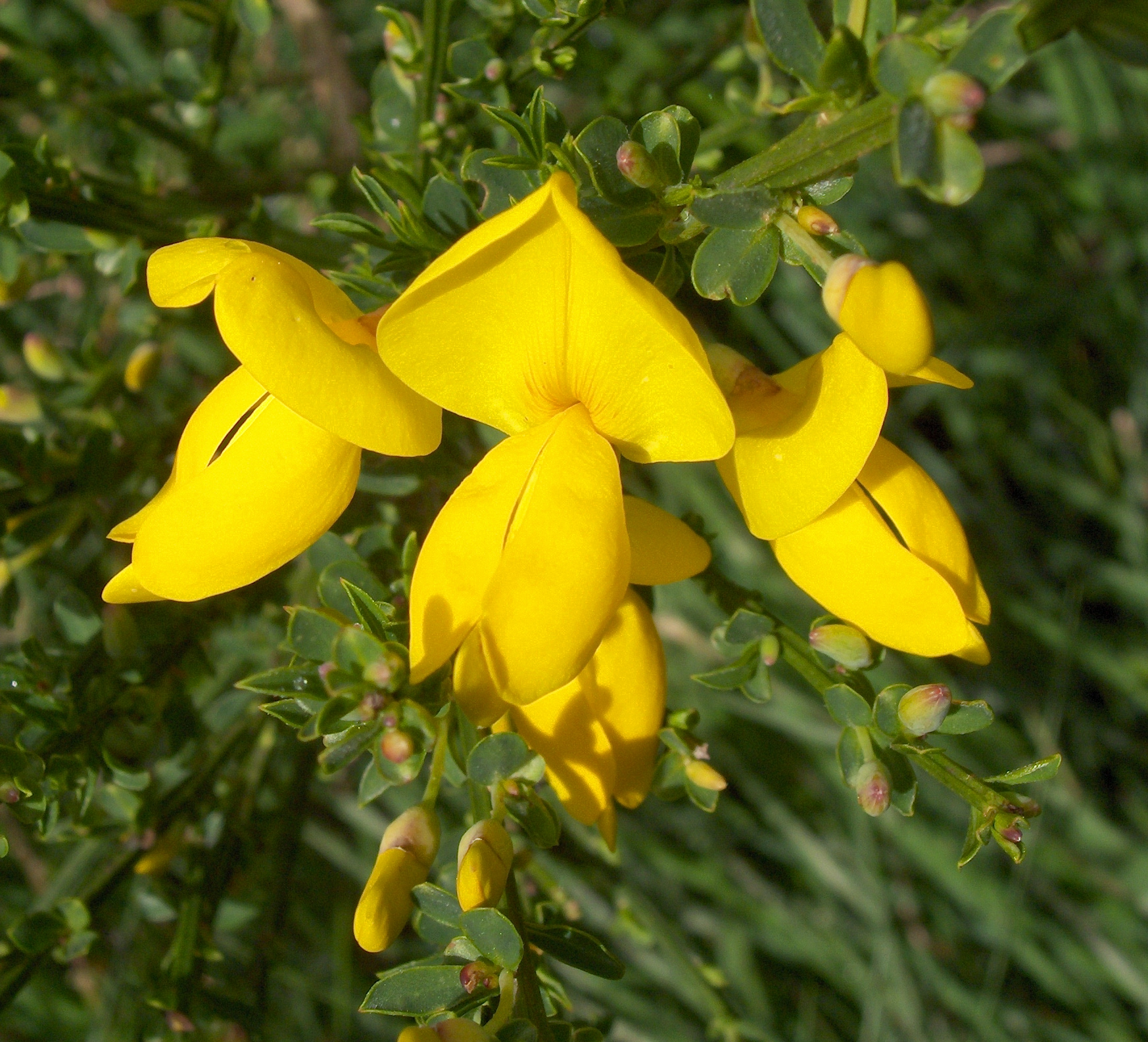 The Common Broom - Cytisus scoparius, grows in North-Western Europe. This particular image is taken from the Highlands on Britain.